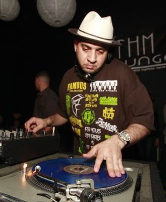 DJ Salam Wreck Djing in Long Beach, CA